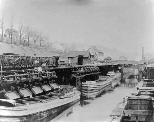 Barges awaiting Anthracite coal loads at the southwest terminus of the Delaware and Hudson Canal in Honesdale, PA, USA sometime in the 19th century